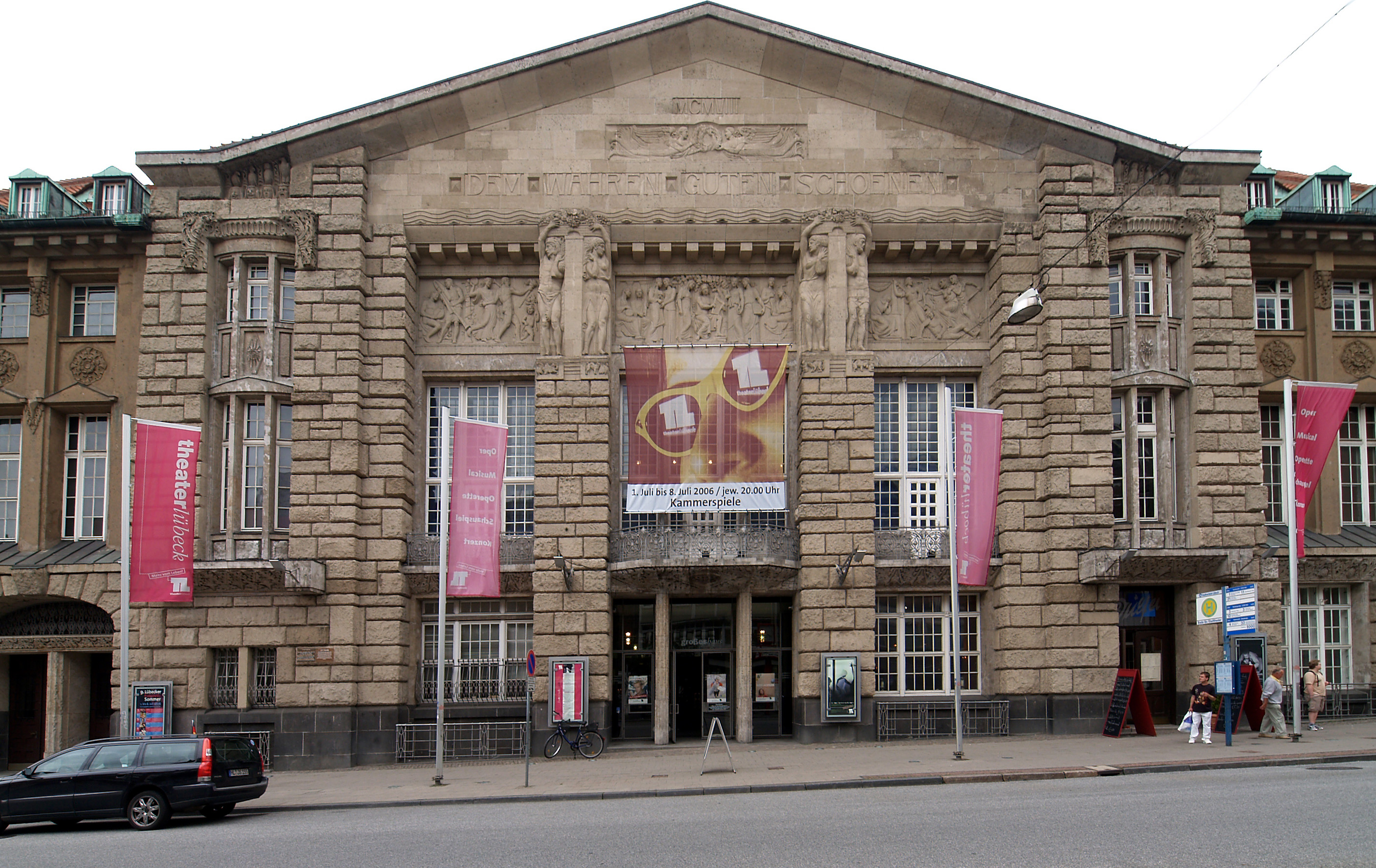 The theatre at Luebeck, Germany